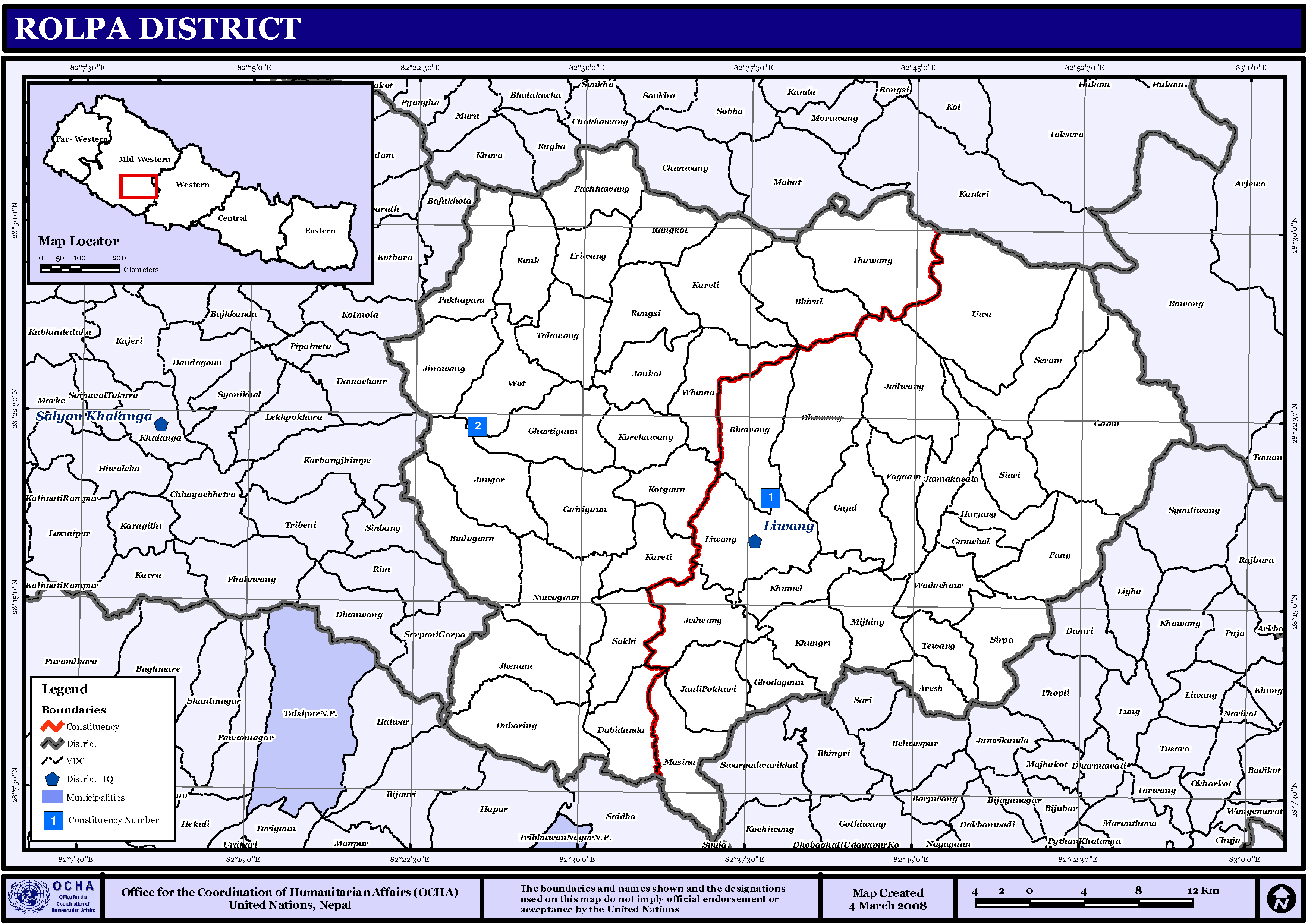 Map displaying Village Development Committees in Rolpa District, Nepal